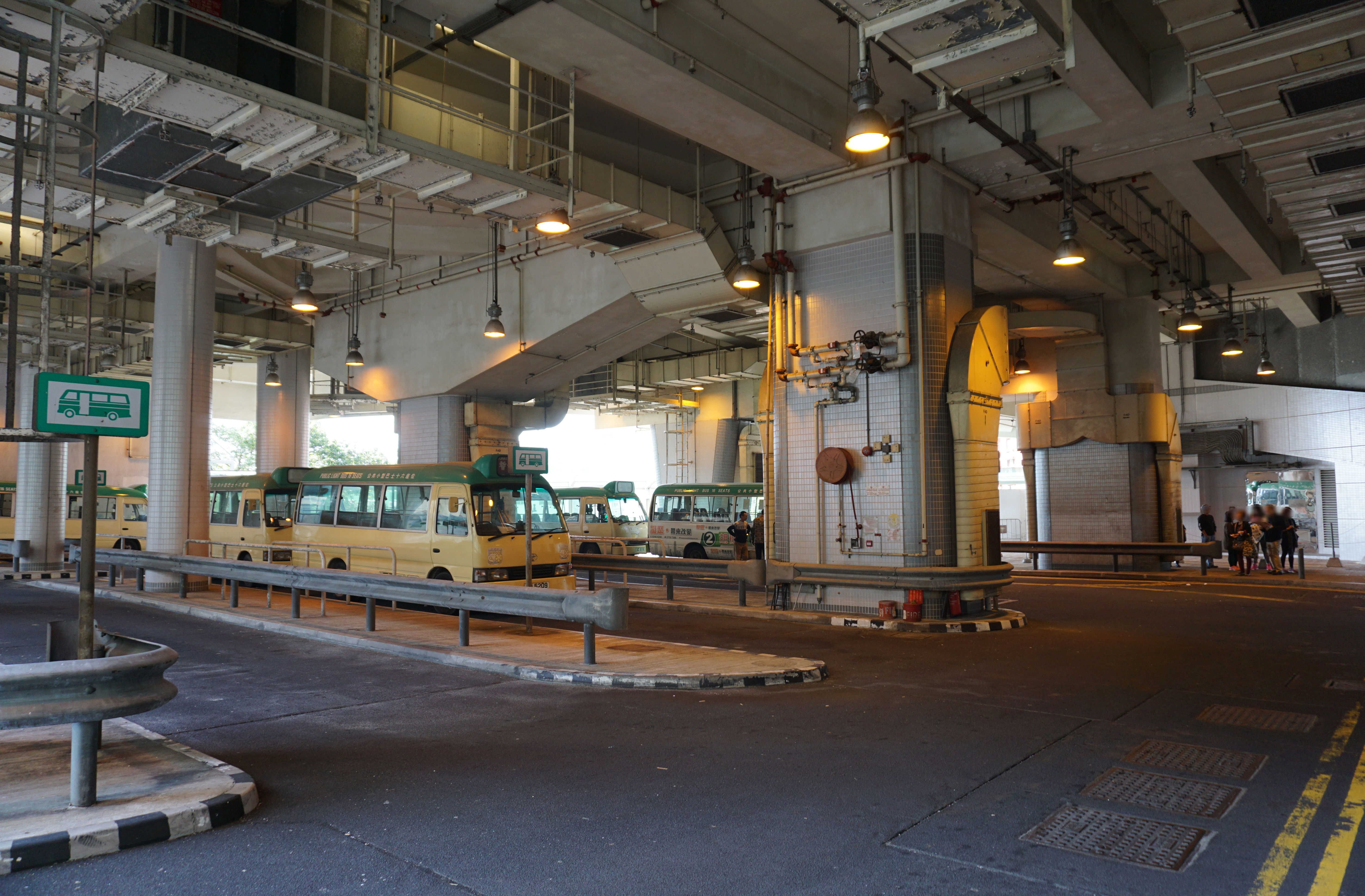 Ping Tin Public Transport Interchange in Lam Tin, Hong Kong.